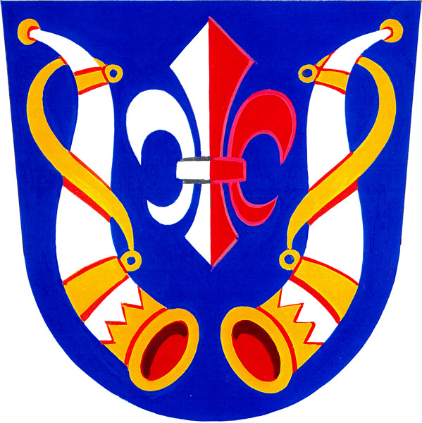 Municipal coat of arms of Troubky-Zdislavice village, Kroměříž District, Czech Republic.